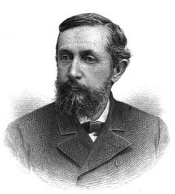 Seth C. Moffatt, US Representative from Michigan